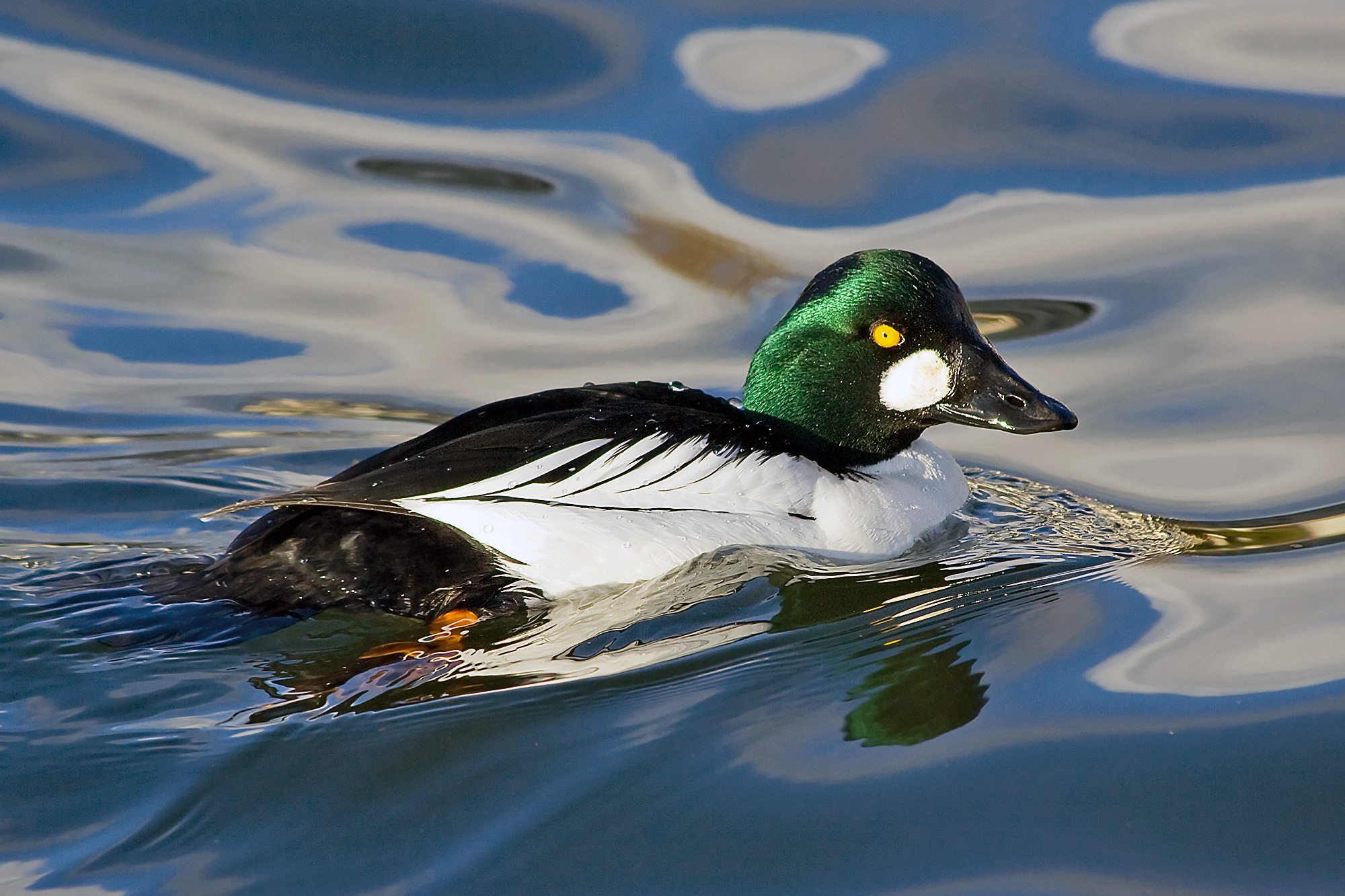 Common Goldeneye, Lake Merritt Oakland, California